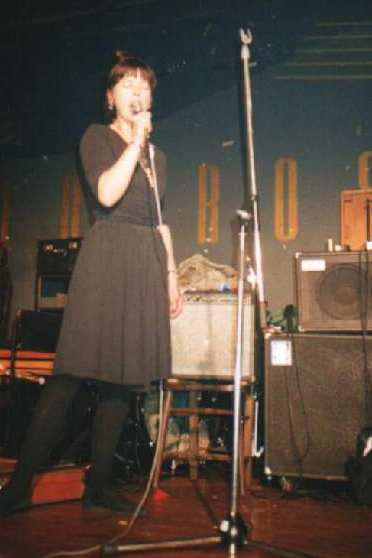 British singer Eve Libertine performing at the Red Rose club, Finsbury Park, London, 1991